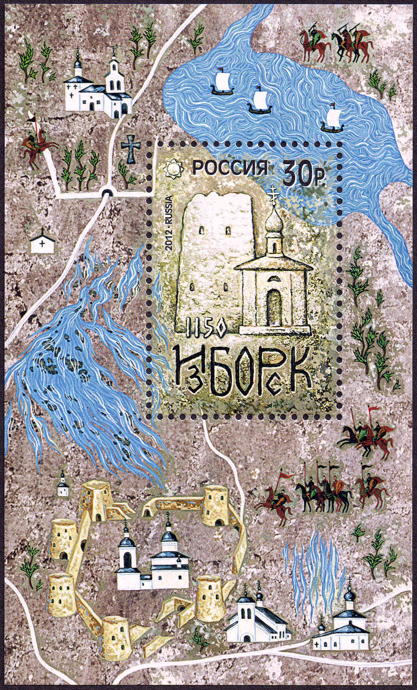 1150th anniversary of IzborskThe souvenir sheet of Russia, 1 stamp×30.00 Rubles, 4 July 2012, PTC Marka Catalogue No 1606, Michel No 1838 (Block167). Coated paper. Offset printing. Perforation: frame 12½×12. The size of the souvenir sheet: 60×100 mm. The size of the stamp: 28×40 mm. Print run: 80,000.The souvenir sheet features historical monuments located in Izborsk.The stamp: Talavskaya Tower (14th c.), the Chapel of the Icon of the Theotokos of Korsun (circa 1929–1931). The margins of the souvenir sheet: the Church of St. Nicholas in Old Izborsk (17th c.), Gorodishchenskoe Lake, Truvor’s Cross (14th – 15 th c.), Slavonic Springs, the Chapel of the Life-Giving Trinity (18th – 19th c.), Izborsk Fortress (14th c.), the Cathedral of St. Nicholas in Izborsk Fortress (14th c.), the Church of St. Sergius of Radonezh and Nikandr (between 1701 and 1751), the Church of the Nativity of the Theotokos (the end of 17th c. – the beginning of 18th c.)